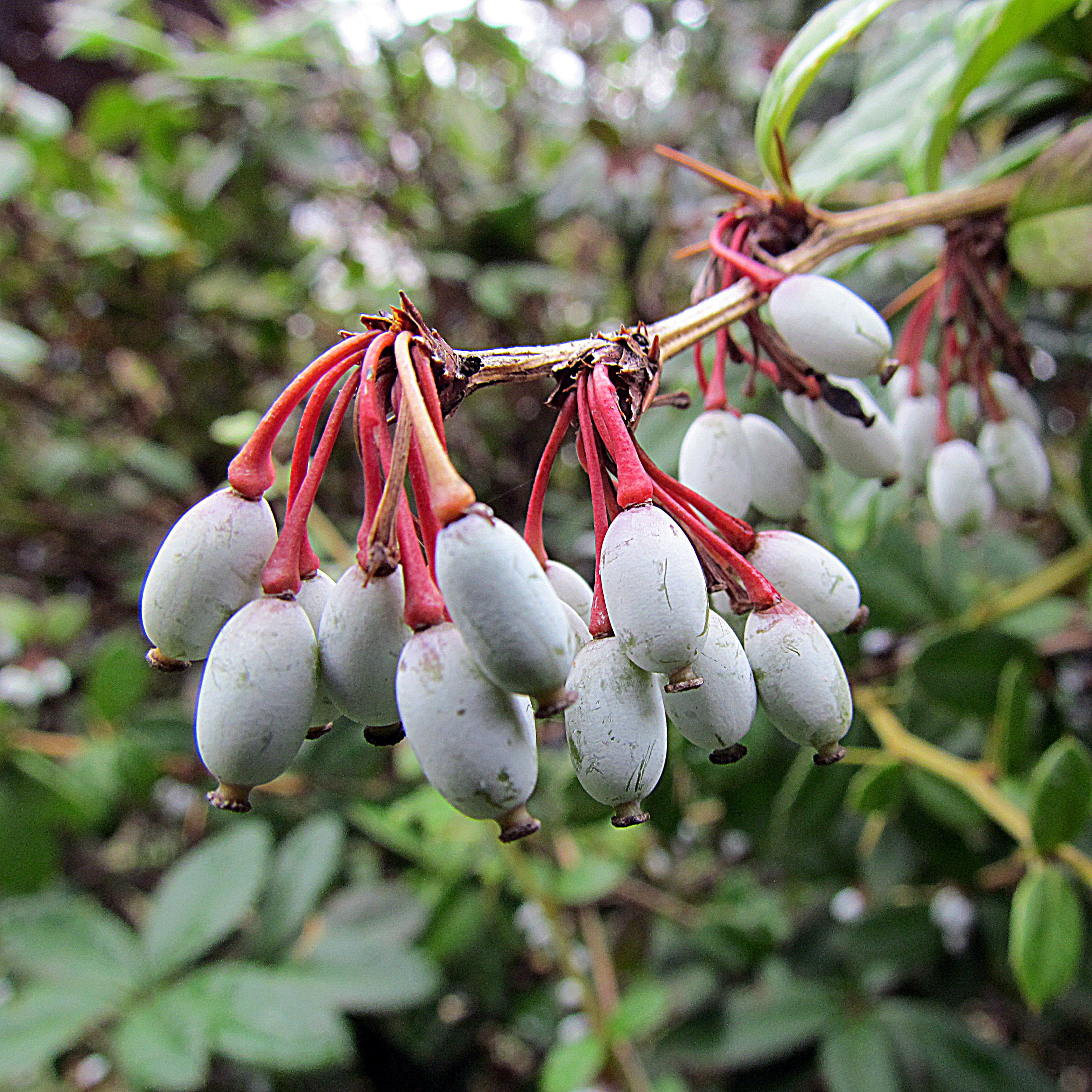 Fruits of Berberis julianae